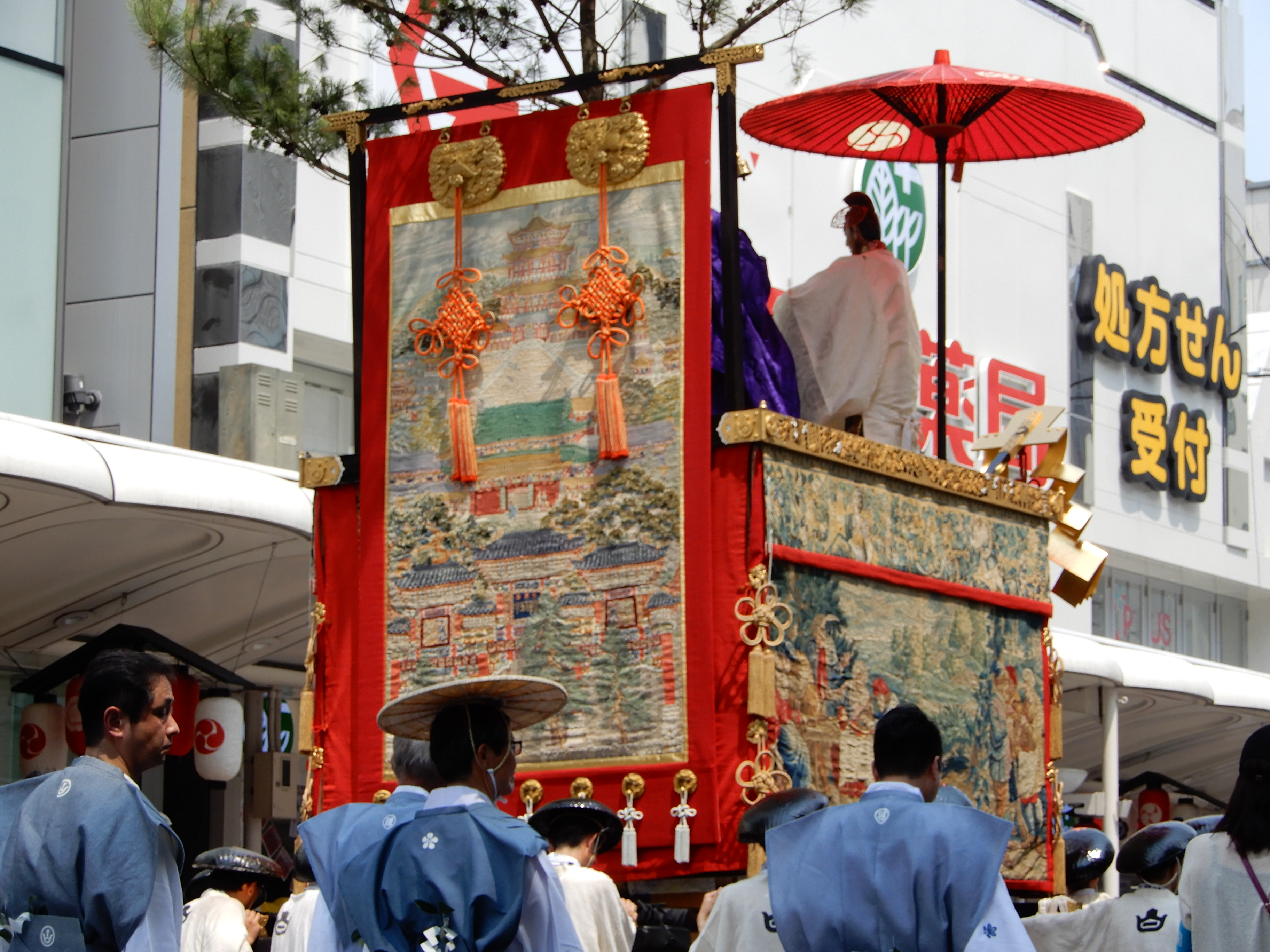 This photo has been taken in the country: Japan